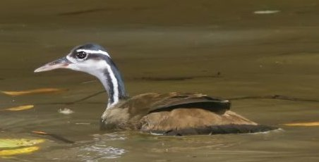 Crop of file in filename